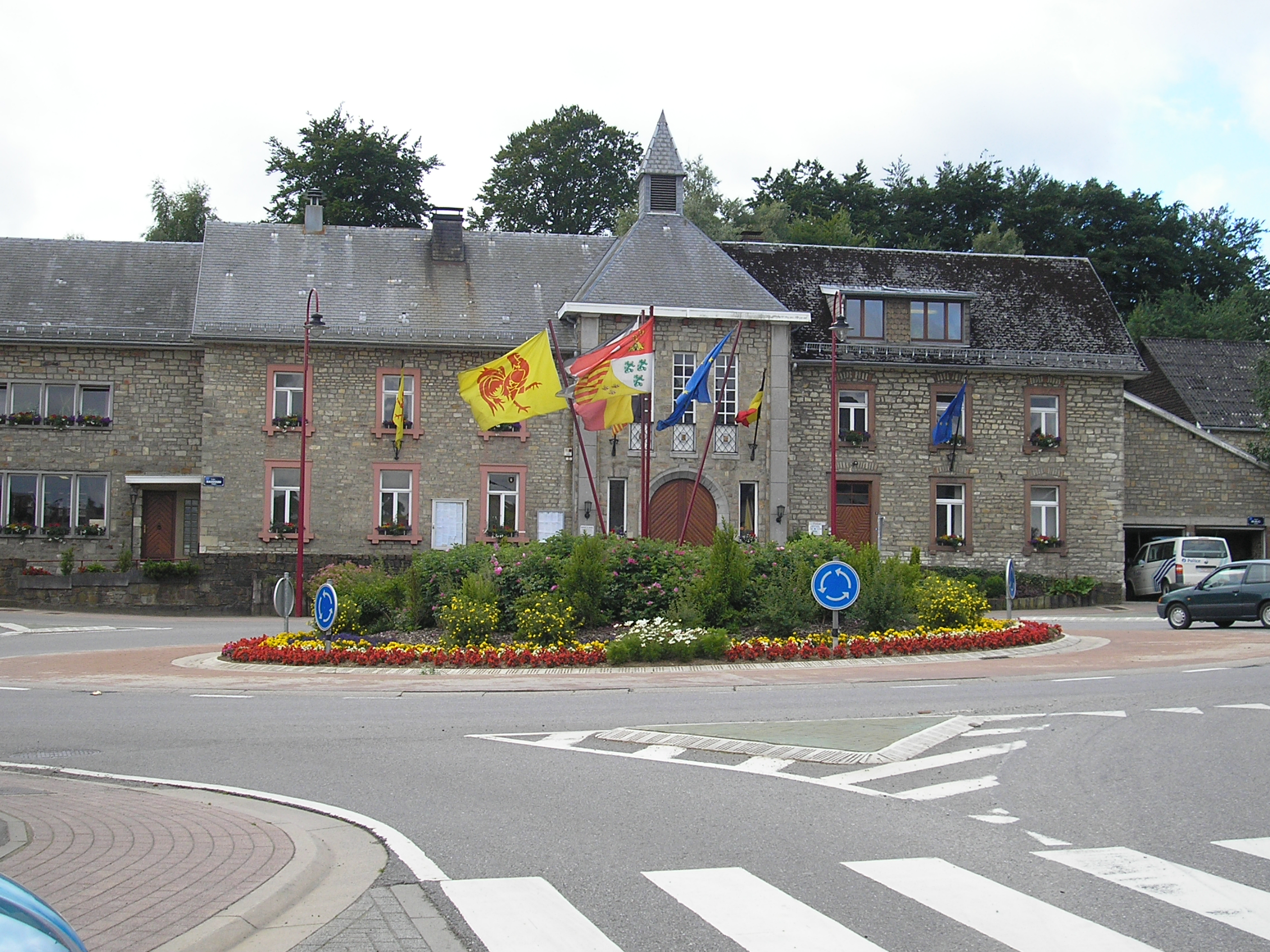 Waimes, Townhall, East Belgium